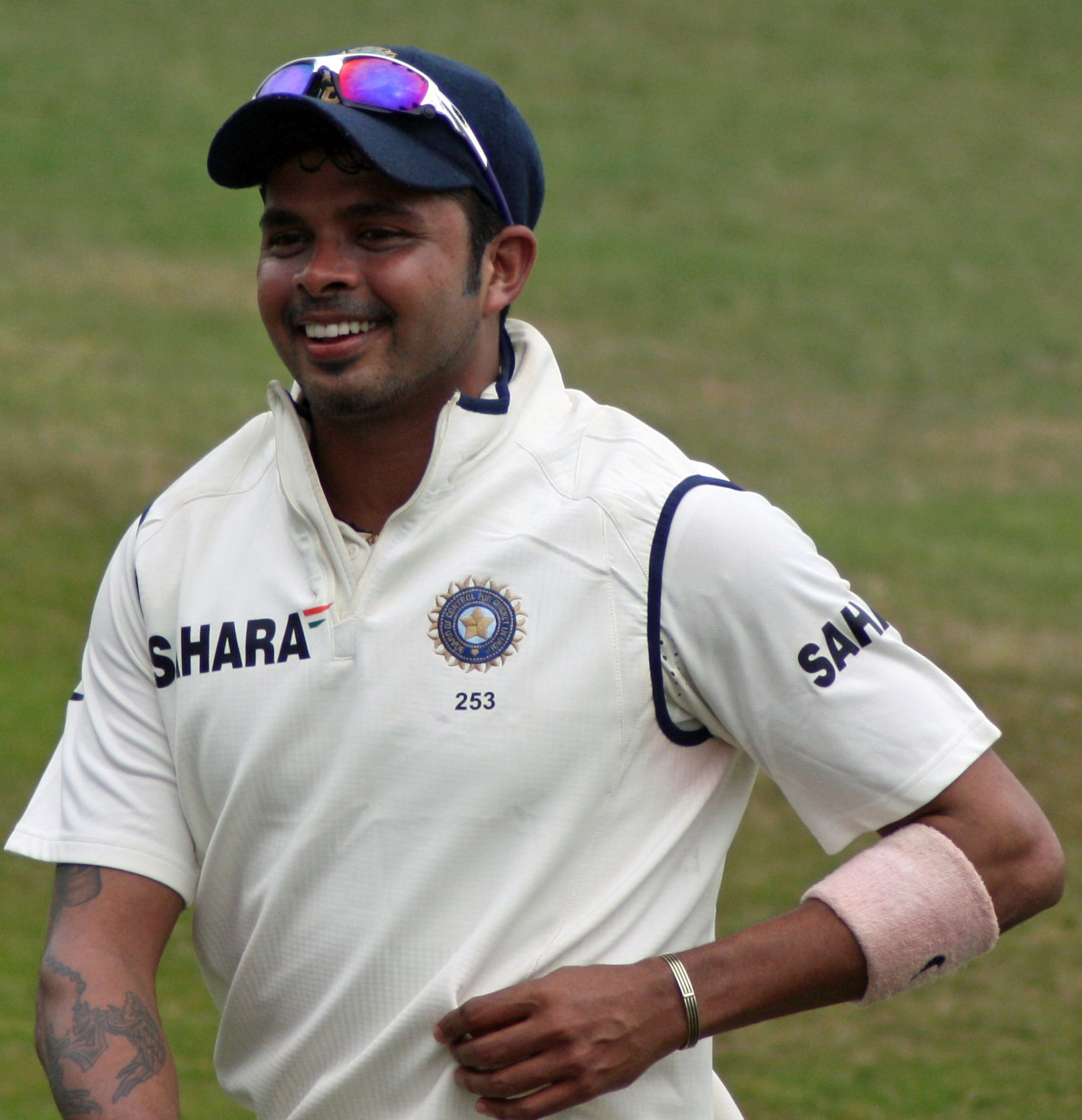 Sreesanth in the field for India on the first day of their tour match against Somerset at the County Ground, Taunton.